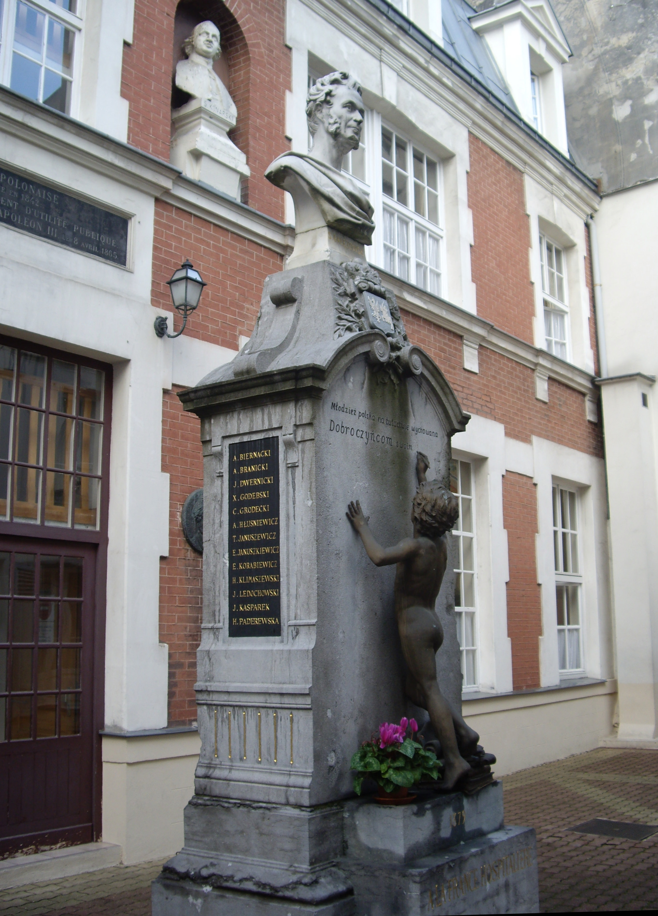 Bust of Seweryn Gałęzowski (1801-1878) by Cyprian Godebski (1835-1909) at the Polish School of Paris.